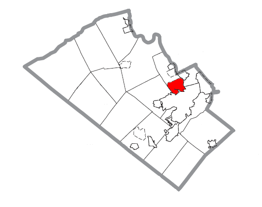 A map of Lehigh County showing Fullerton highlighted on the map.